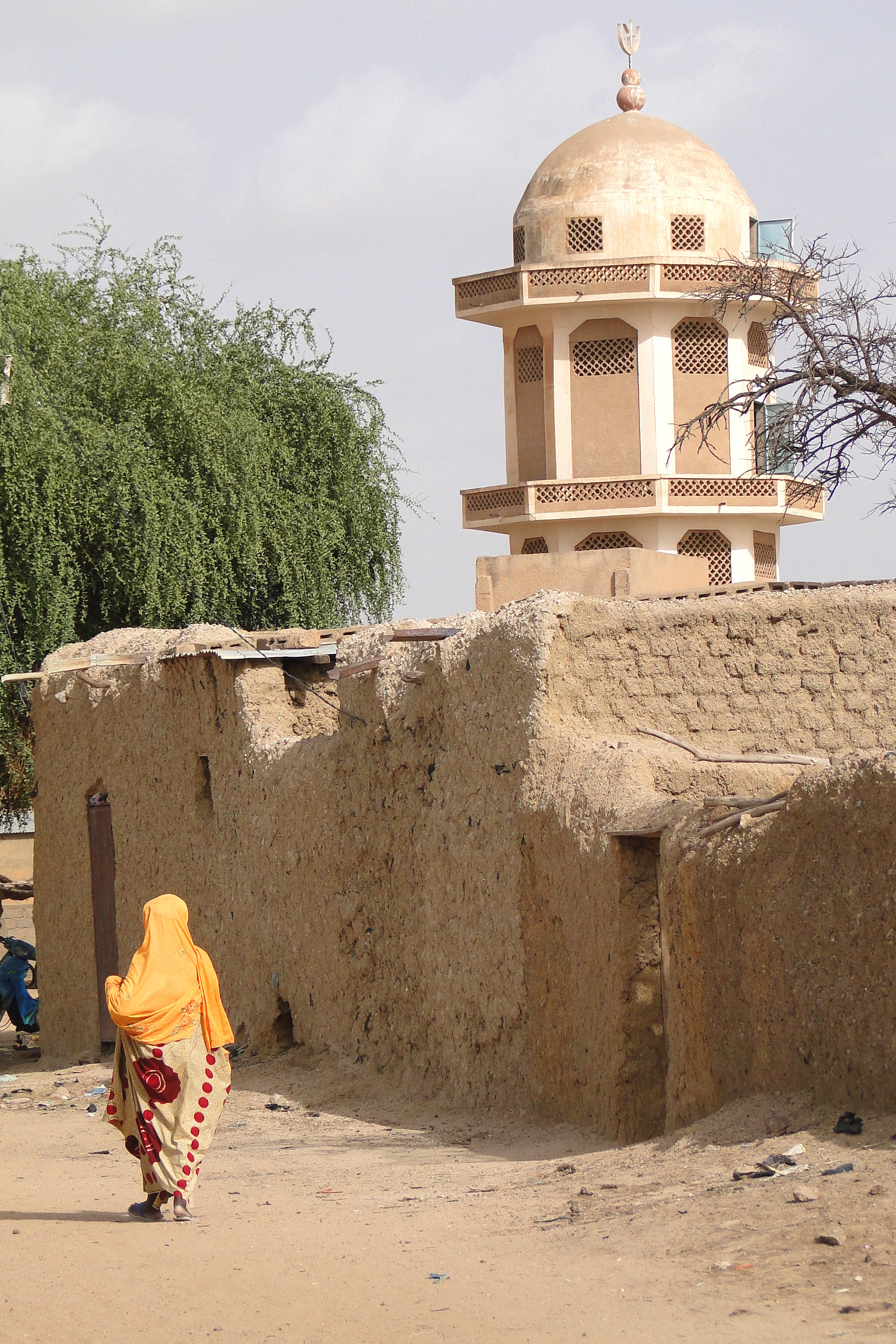 Woman Walks Past Mosque - Dori - Sahel Region - Burkina Faso